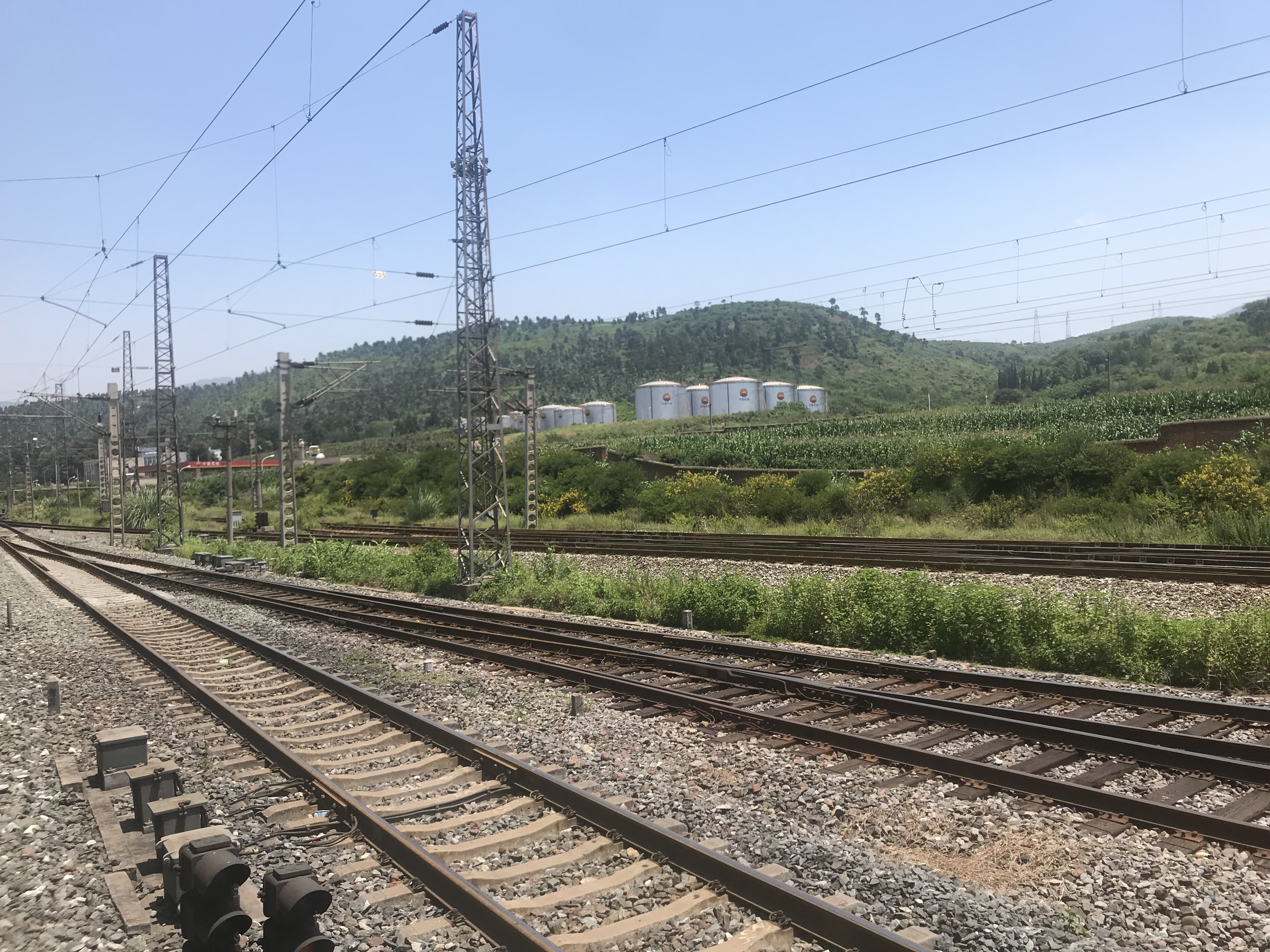 201908 China Petrol Oil Terminal at Jingjiu Station